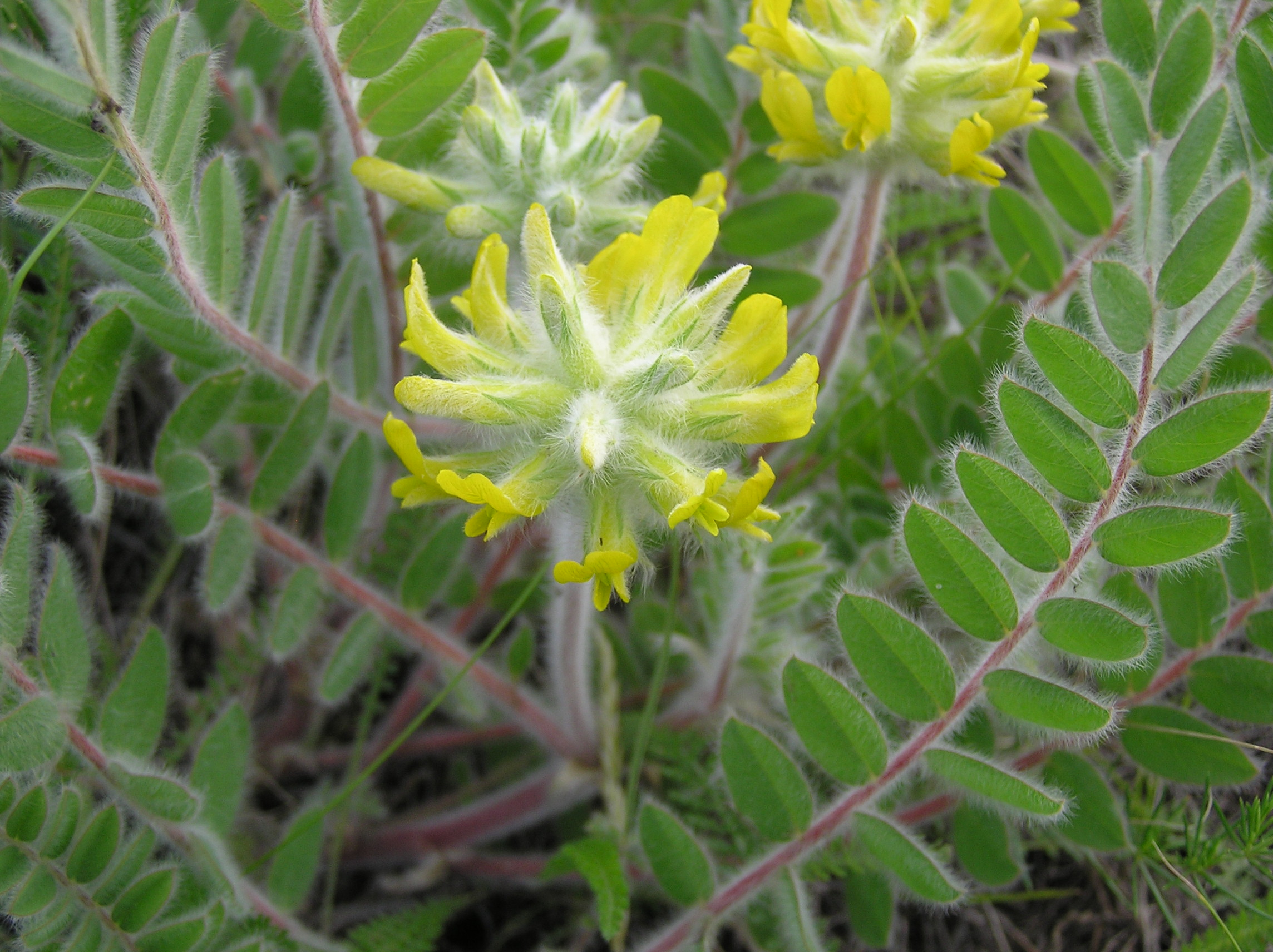 Astragalus dasyanthus Pall. Habitat: steppe on a gentle northern slope. Vicinity of Saratov city, Russia.